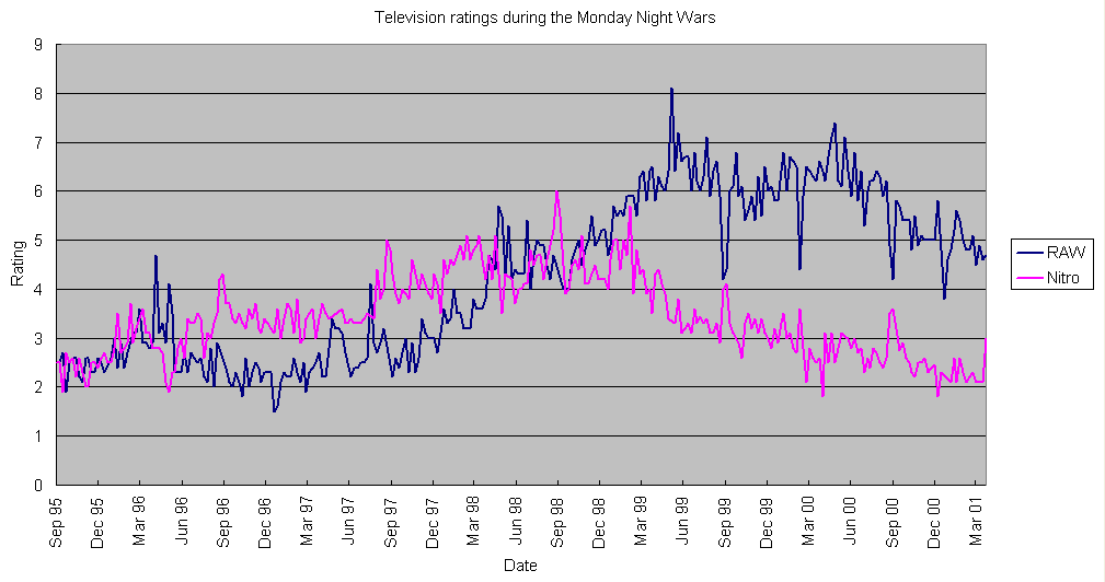 Chart of the ratings for Nitro and Raw in the Monday Night Wars